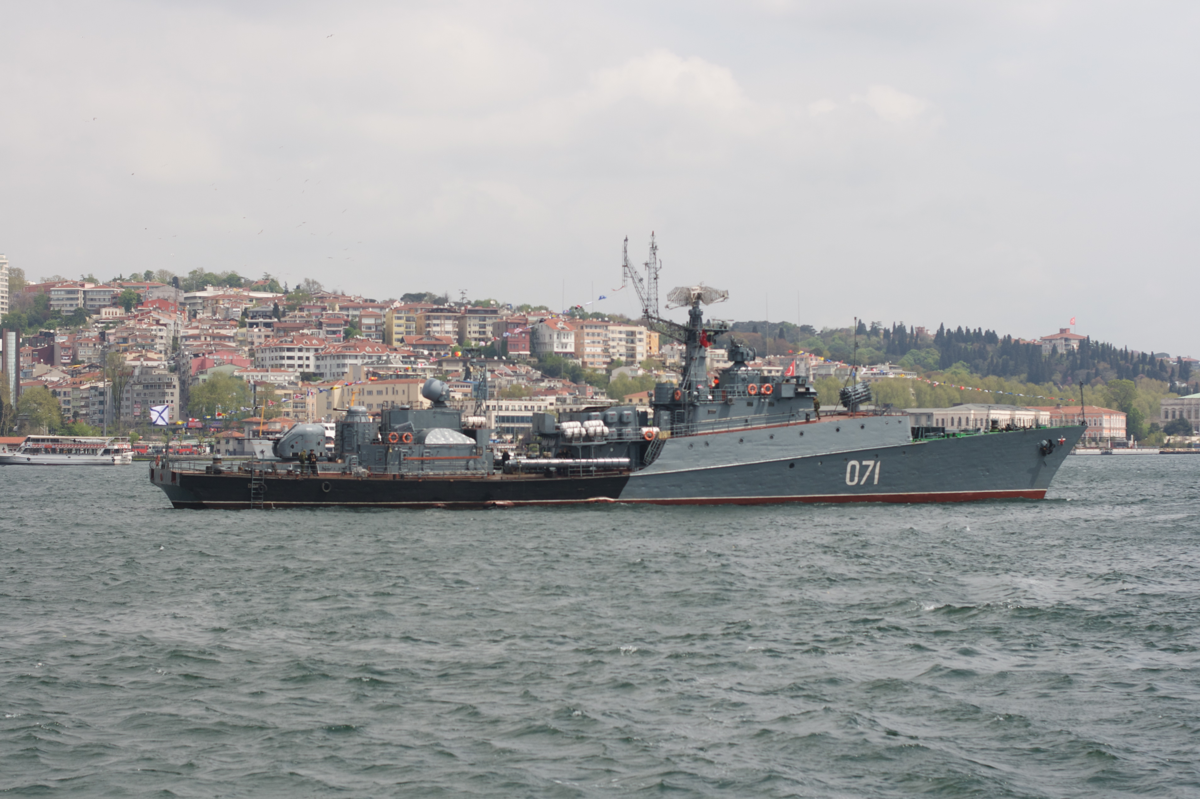 Russian small ASW ship MPK-118 «Suzdalets».